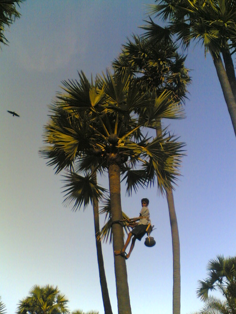 A young Toddy-picker is climbing a palm tree to collect 'Neeraa' (A kind of alcohol). He is 12 years old. He will register his name in the society at the eligible age of 18. In the meanwhile, he is being trained by his father to develop his skills. Government allots 25 palm trees to each Toddy-picker after registration, his father said. They collect 5 pots of Neeraa every day from "pothu thaadi" (Male Palm) and 10 pots of Neeraa from "naaga thaadi" (Female Palm). Each Toddy-picker earns about Rs.100 to Rs.200 every day. It depends on their luck on a particular day rather than the quantity of their collection. "In our family, Luck will not favour those, who wish to do some other job" - Thus it was told by his father. He was ready to change his opinion if I show him some instance. He and his family members perhaps know it better. Education alone can change their opinion or life, at least, their way of thought.